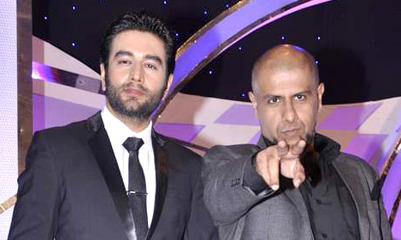 Vishal Dadlani and Shekhar Ravjiani at the Indian Idol Junior press conference in Malad, Mumbai